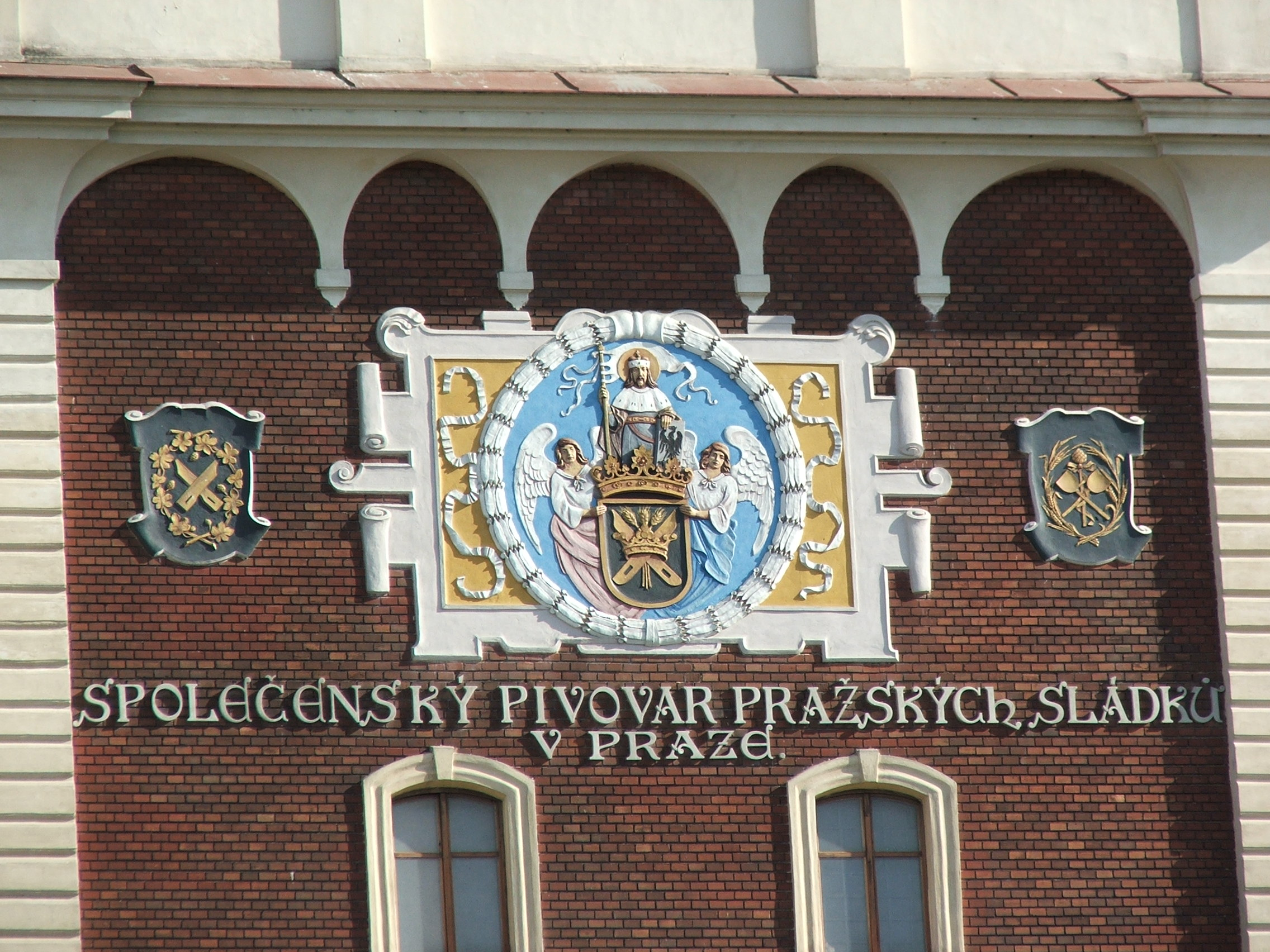 Braník Brewery in Prague, unfortunately no longer used as a brewery